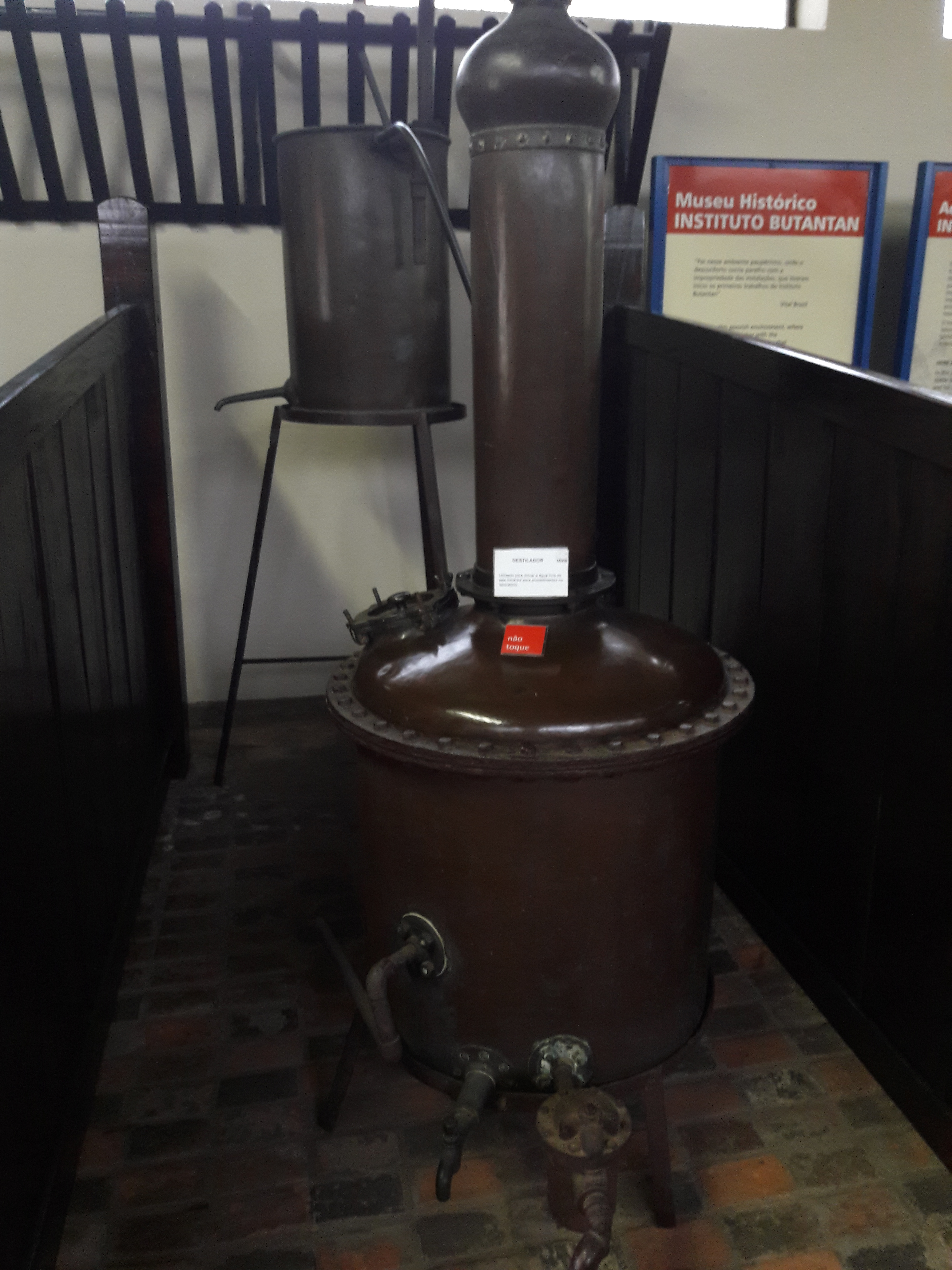 Equipamento para fazer a sangria de cavalos utilizado pelo Instituto Butantan no passado.